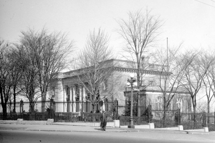 "We see the hôtel particulier of Marius Dufresne (now the Château Dufresne Museum) located at the intersection of Pie-IX Boulevard and Sherbrooke Street East in Montreal.", Château Dufresne, 4040, Sherbrooke Street East, Montreal, Quebec, Canada.